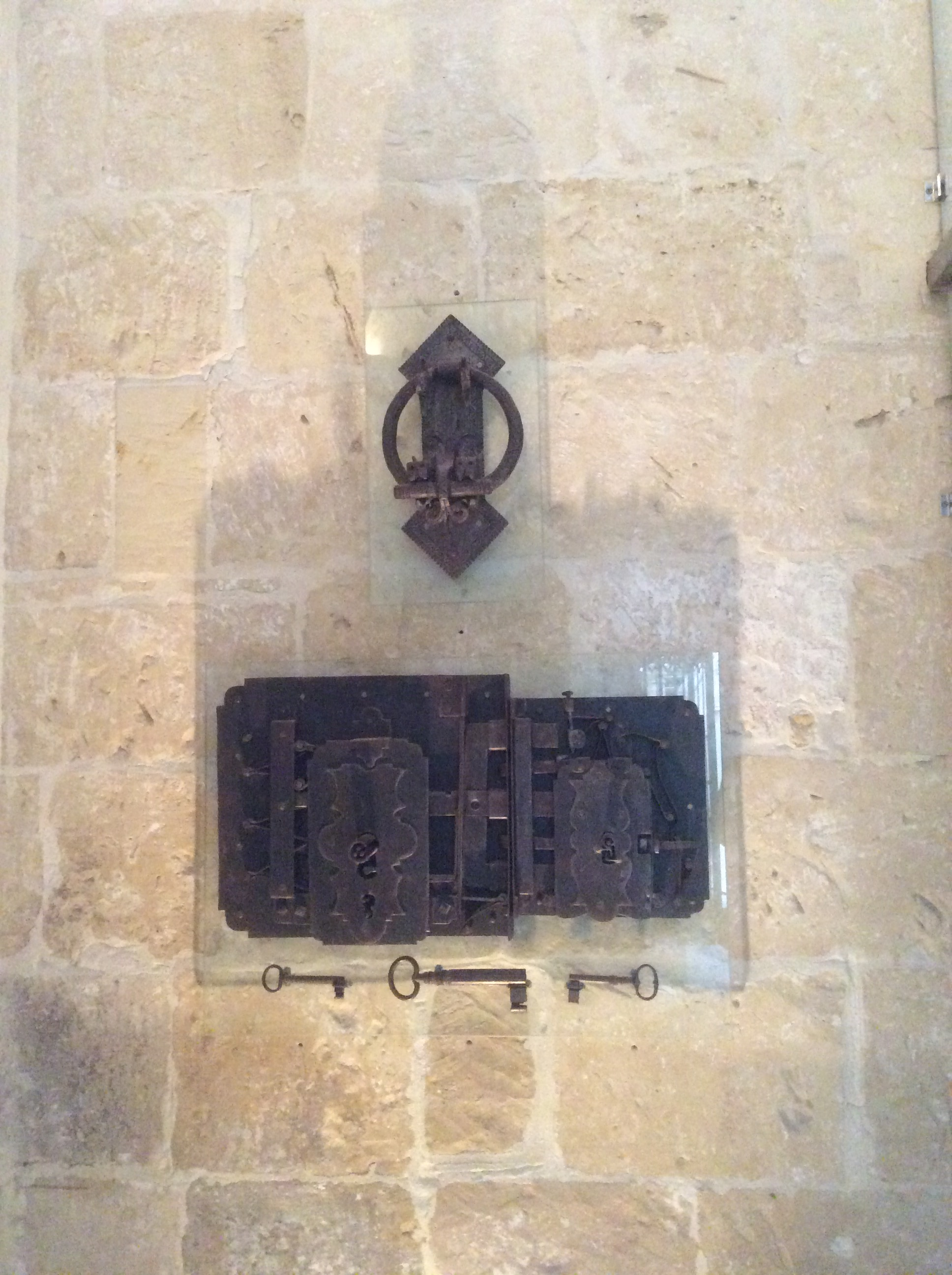 Palazzo Falzon original door lock, Mdina